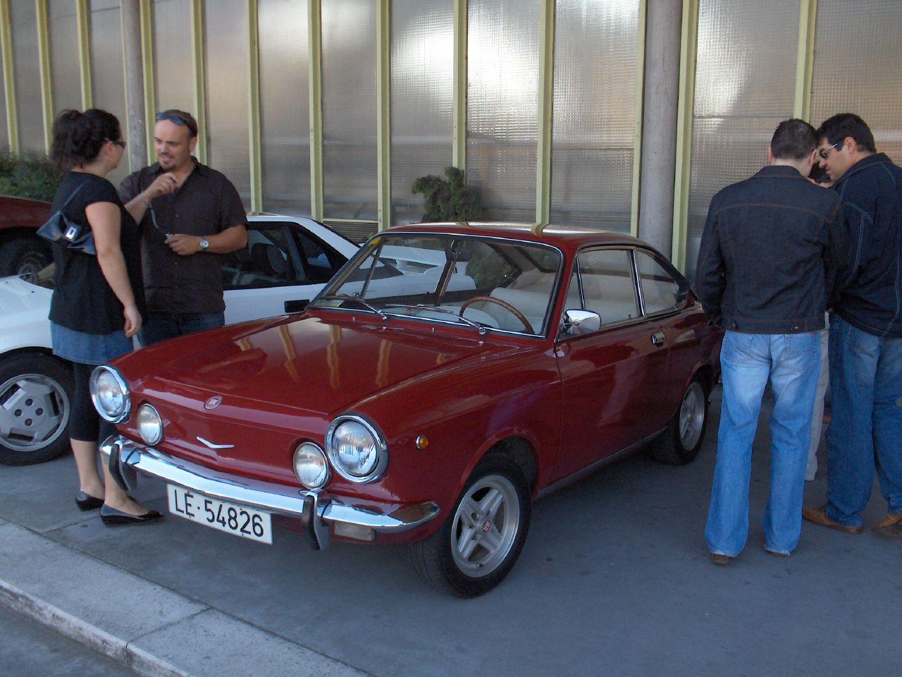 SEAT 850 Sport